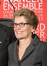 Kathleen Wynne